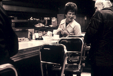 Waitress in diner, in Pike Place Market, Seattle, Washington, 1981. Item 37921, Pike Place Market Visual Images and Audiotapes (Record Series 1628-02), Seattle Municipal Archives.